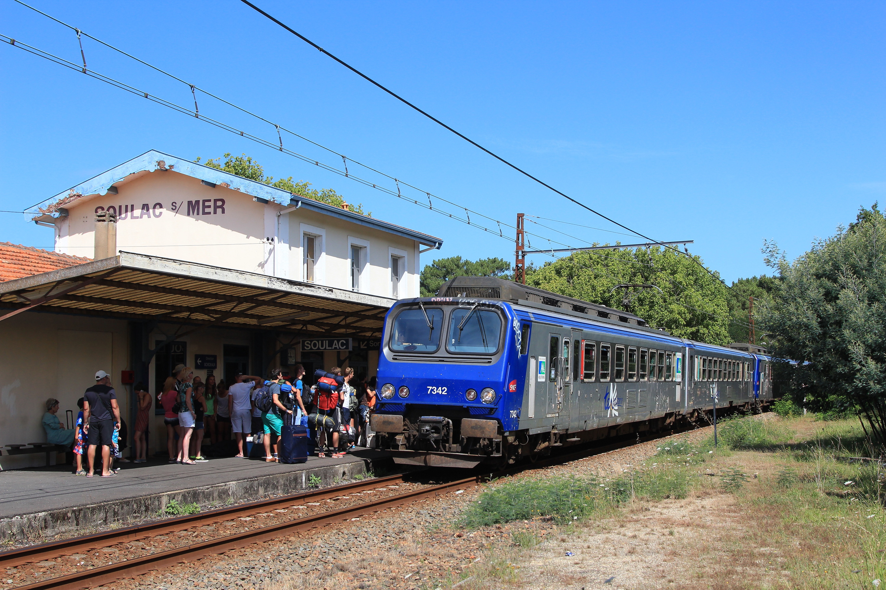 French regional train from Le Verdon-sur-Mer to Bordeaux is here stopping at Soulac railway station, in Gironde.